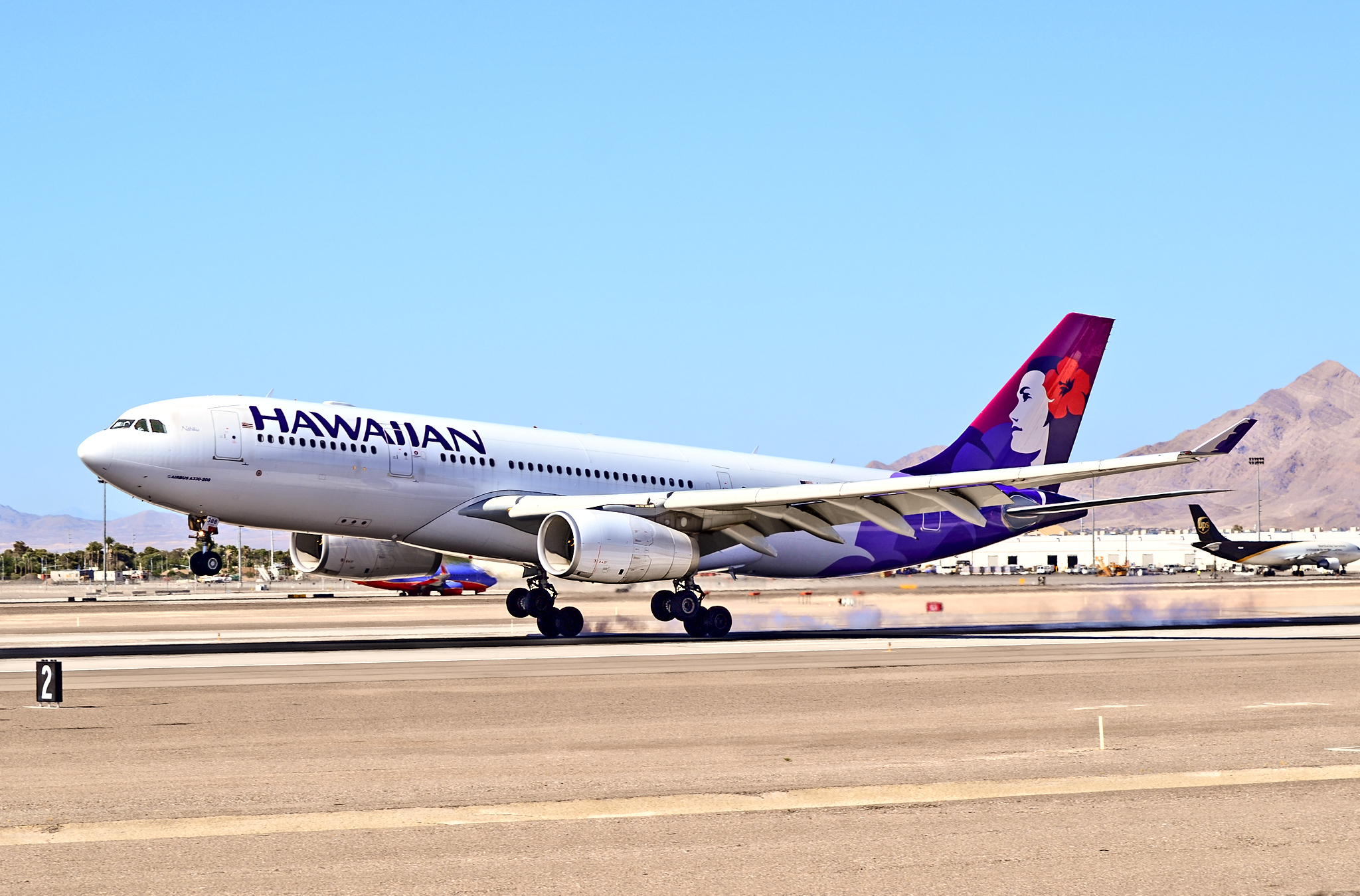 McCarran International Airport (KLAS) TDelCoro June 26, 2013